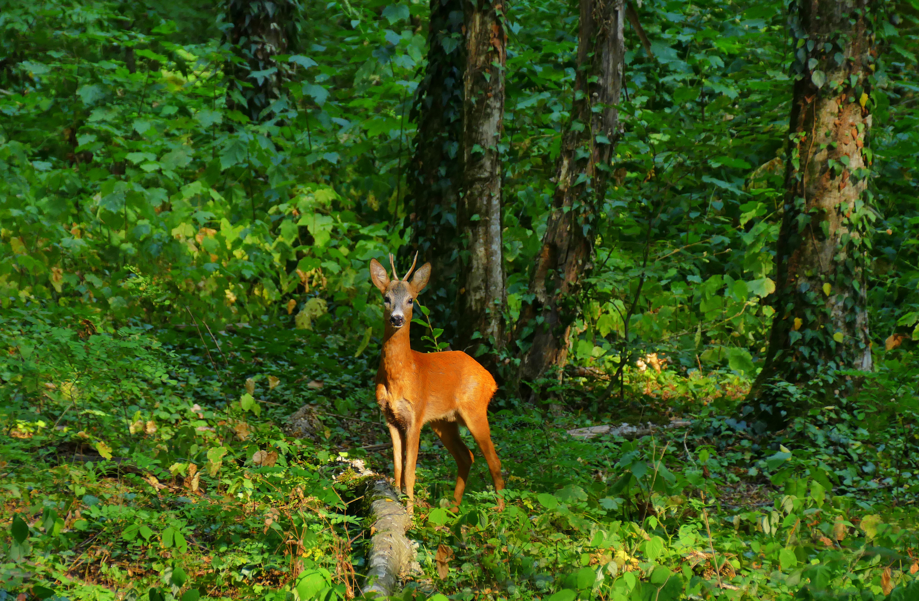 Roebuck in the Lagodekhi Protected Areas